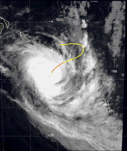 Image of Cyclone Namu (1986) over the Southern Pacific, including a track.